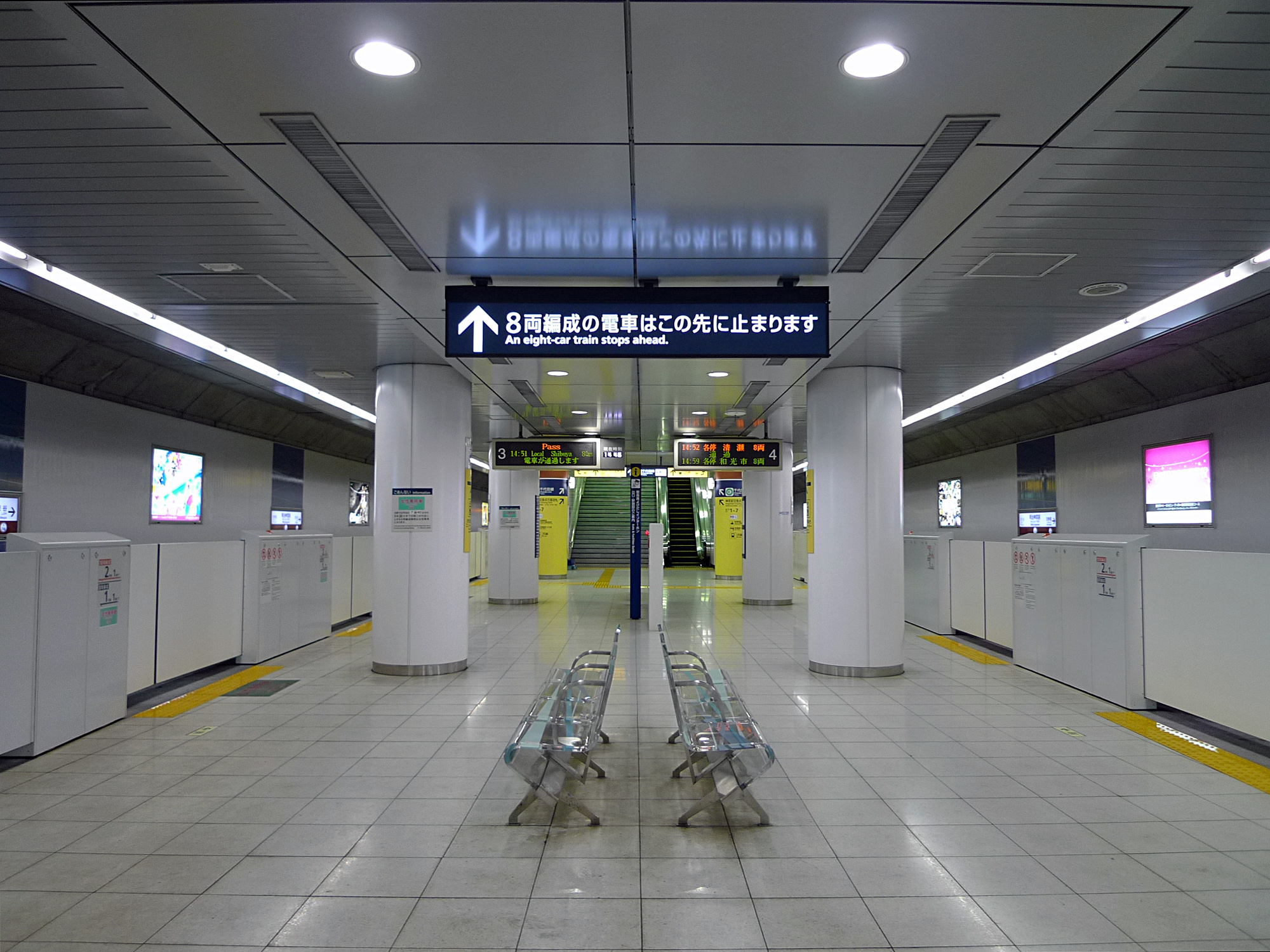 Meiji-jingumae station platform,Tokyo Metro Fukutoshin Line.